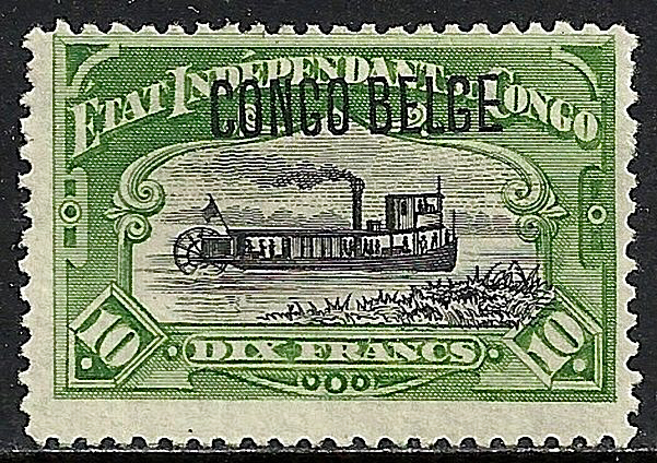 Belgium Congo Postage stamp, 1908 issue, river boat, green & black, 10f